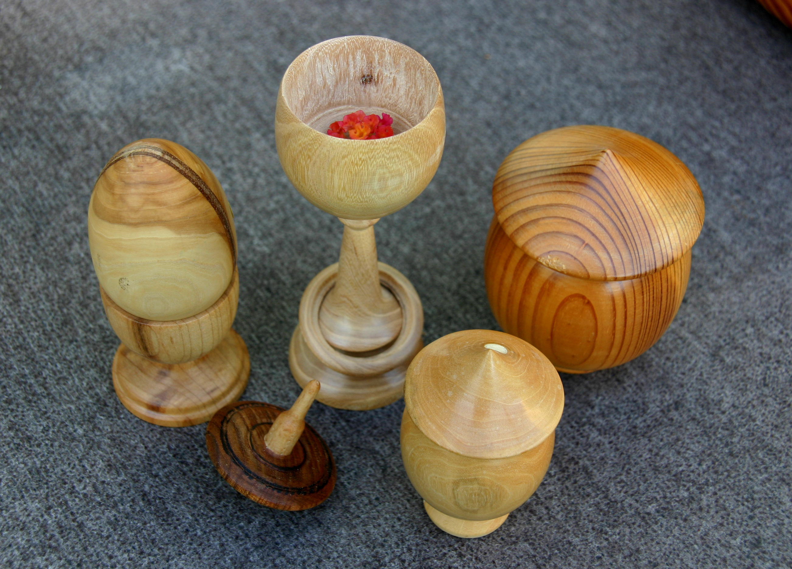 Woodturned small items. Work of Theo Eichmann, Rodalben, Germany.